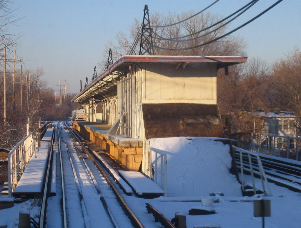 Foster station on the CTA Purple Line in Evanston, Illinois.